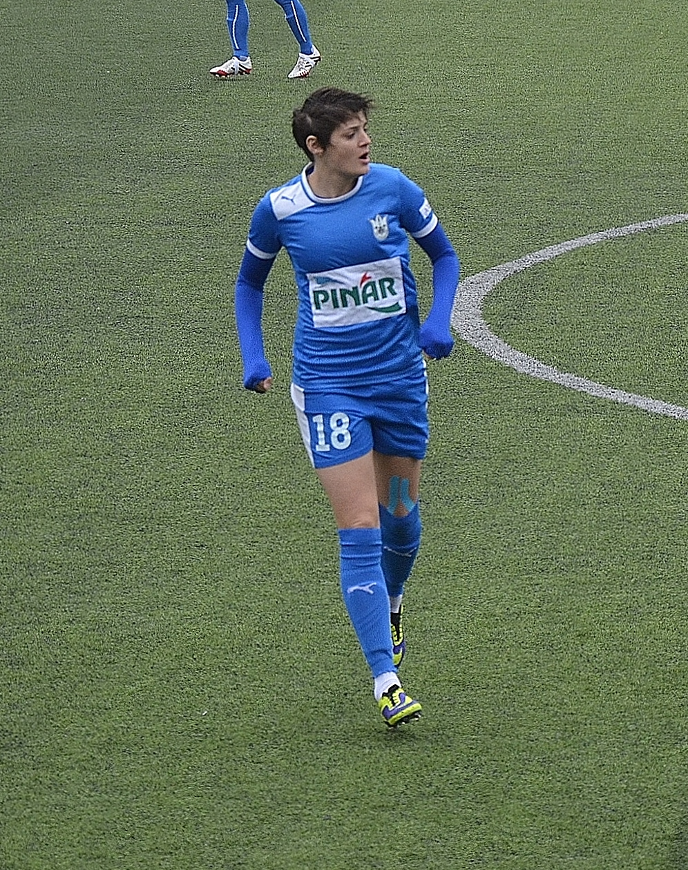 Cosmina Dusa for Konak Belediyespor in the 2013-14 season